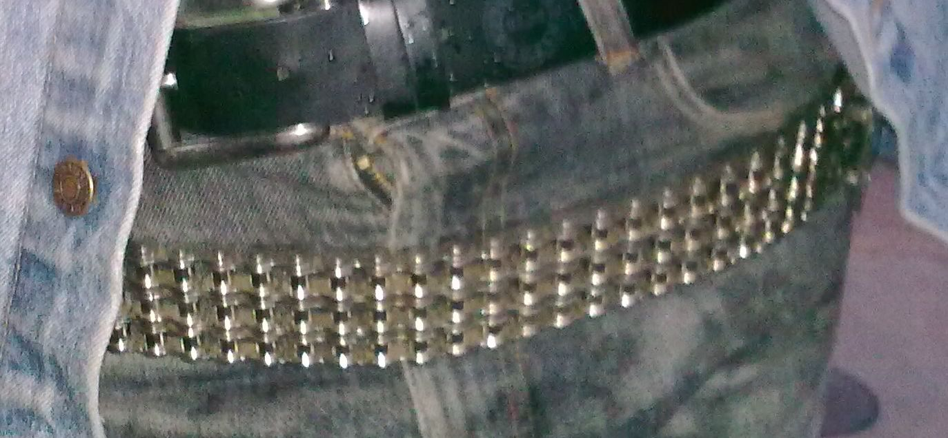 Triplex belt